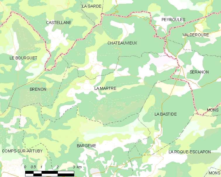 Map of French municipality La Martre